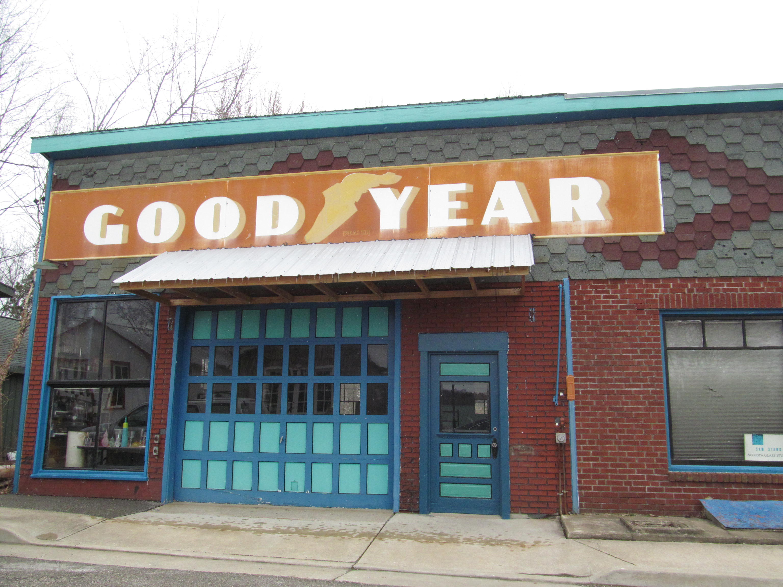 Goodyear store in Augusta, Missouri